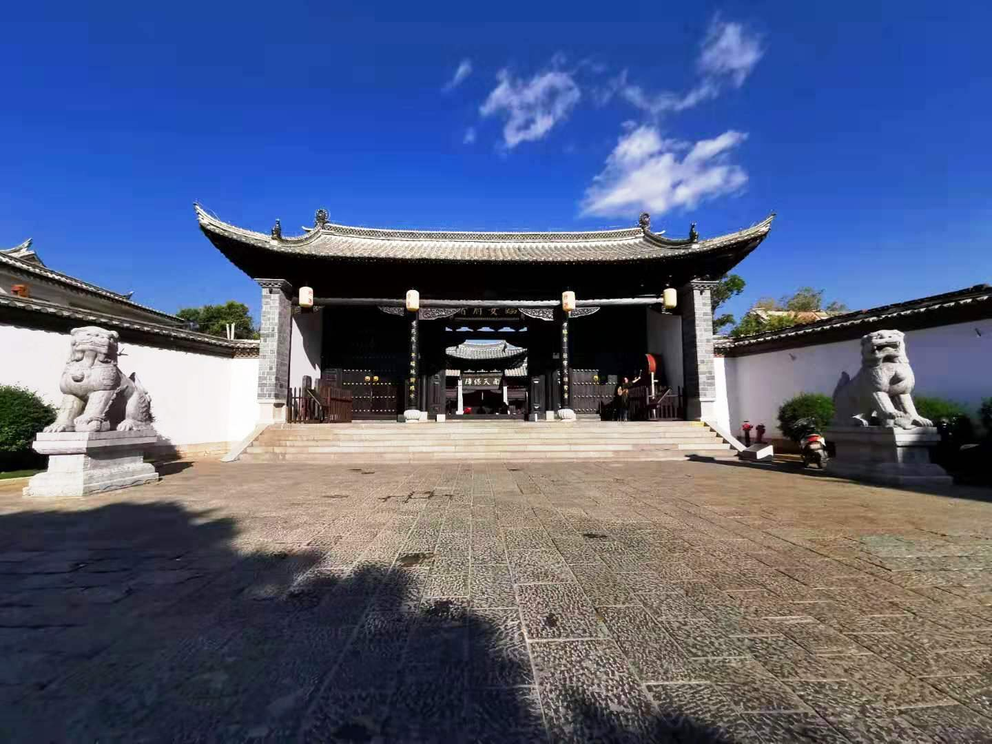 "Lin'an Prefecture" (Ming and Qing dynasties) restored, Jianshui, Yunnan, China.